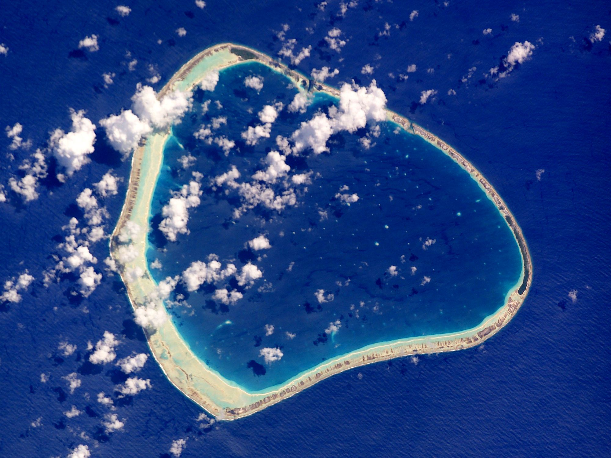 NASA astronaut image of Motutunga Atoll (Tuamotu Archipelago, French Polynesia) in the Pacific Ocean